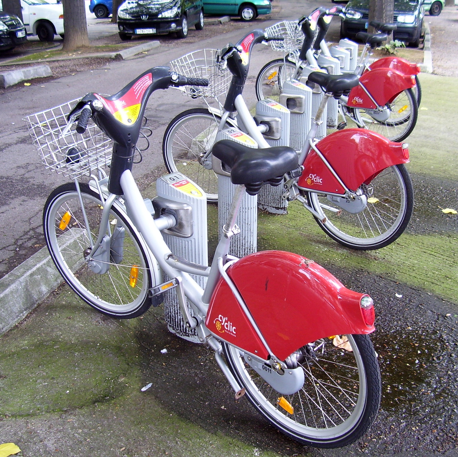 Cy'clic, rentable bikes, at the station 10 "Carnot" in Rouen, Haute-Normandie, France.